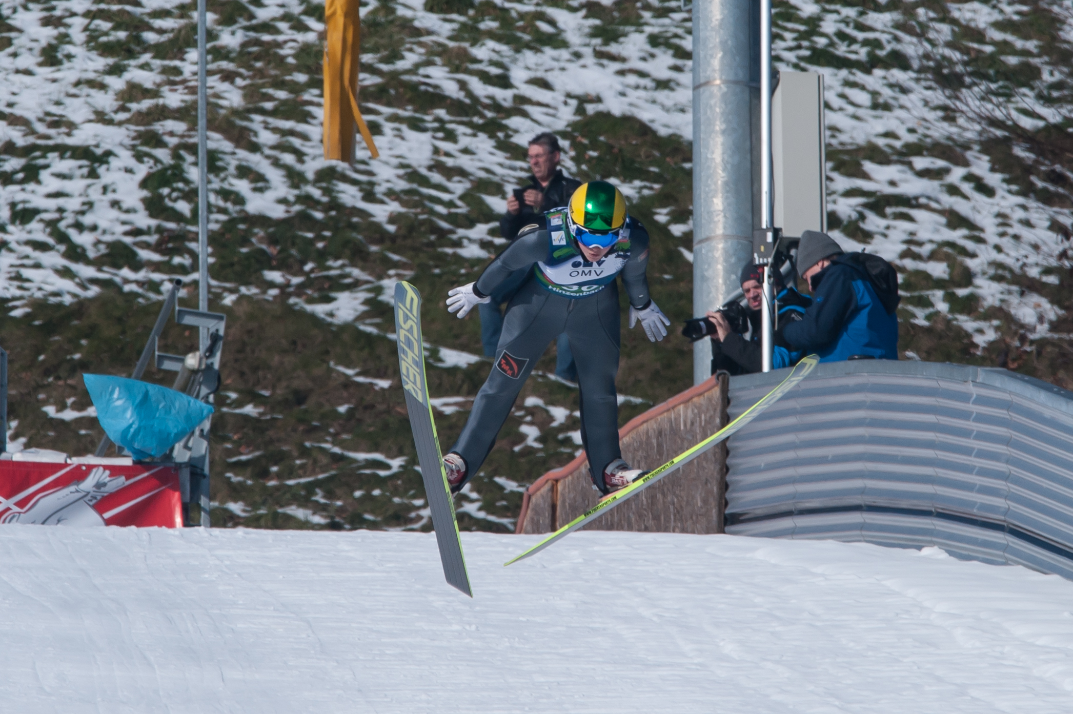 FIS Ski Jumping World Cup Hinzenbach Sun 1 Feb 2015